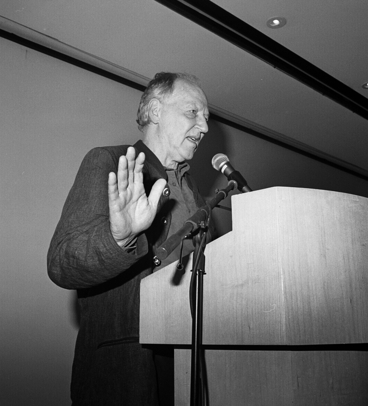 Werner Herzog at Amherst College